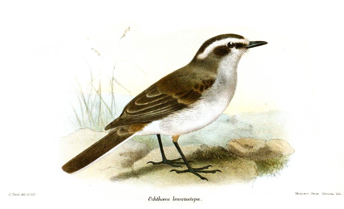 Ochthaeca leucometopa = Ochthoeca leucophrys leucometopa, White-browed Chat-tyrant